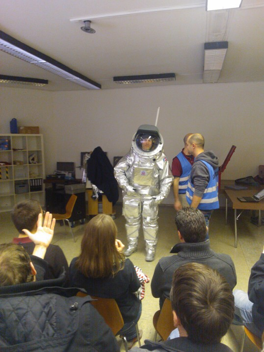 This was in Innsbruck during the donning/doffing demonstration at the dress rehearsal for the Mars2013 mission of the Austrian Space Forum (ÖWF).